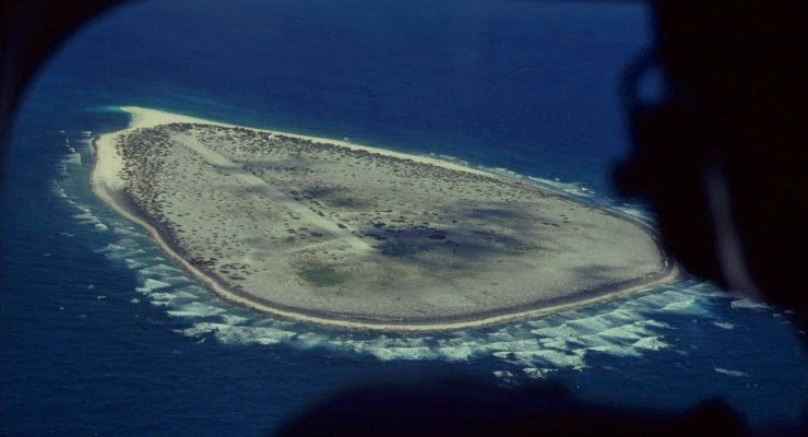 Aerial photograph of Tromelin, Indian Ocean.